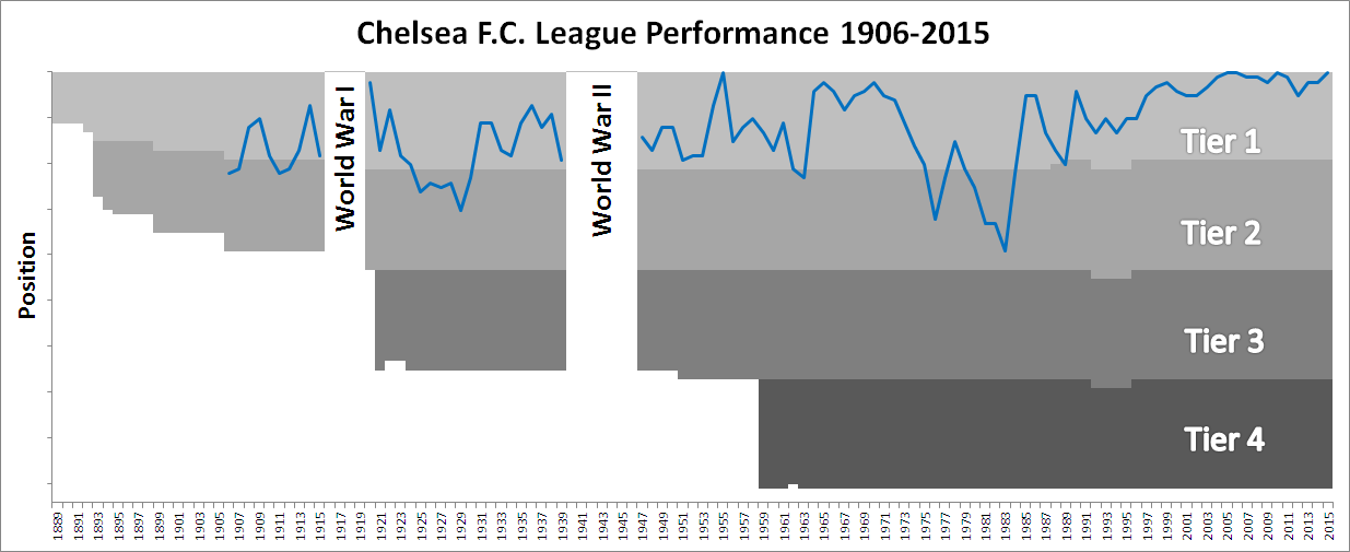 Chart showing the progress of Chelsea's league finishes from 1906-2015